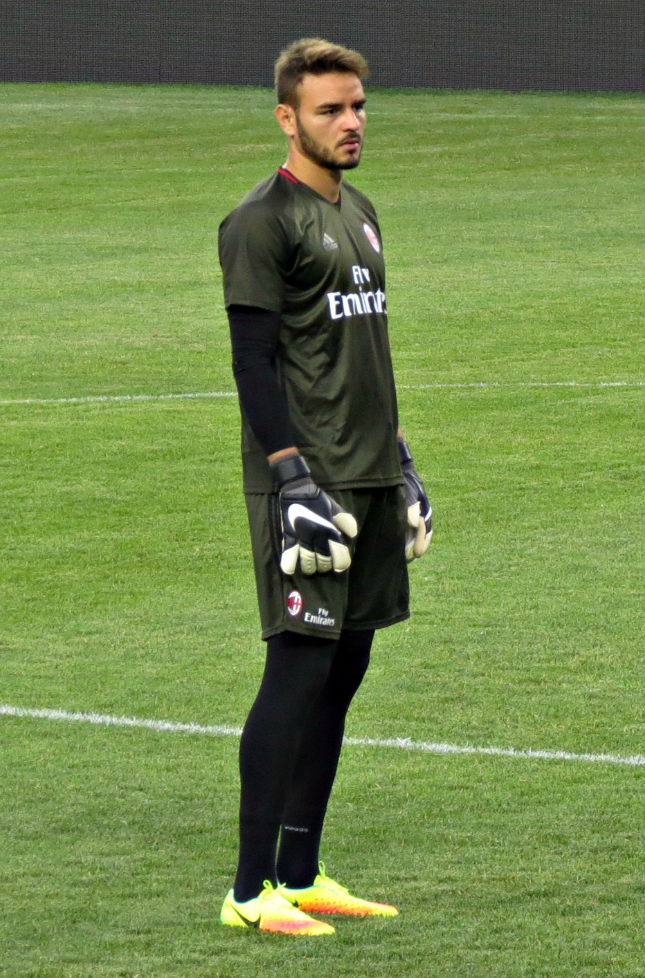 Gabriel, Bayern Munich v AC Milan, International Champions Cup 2016